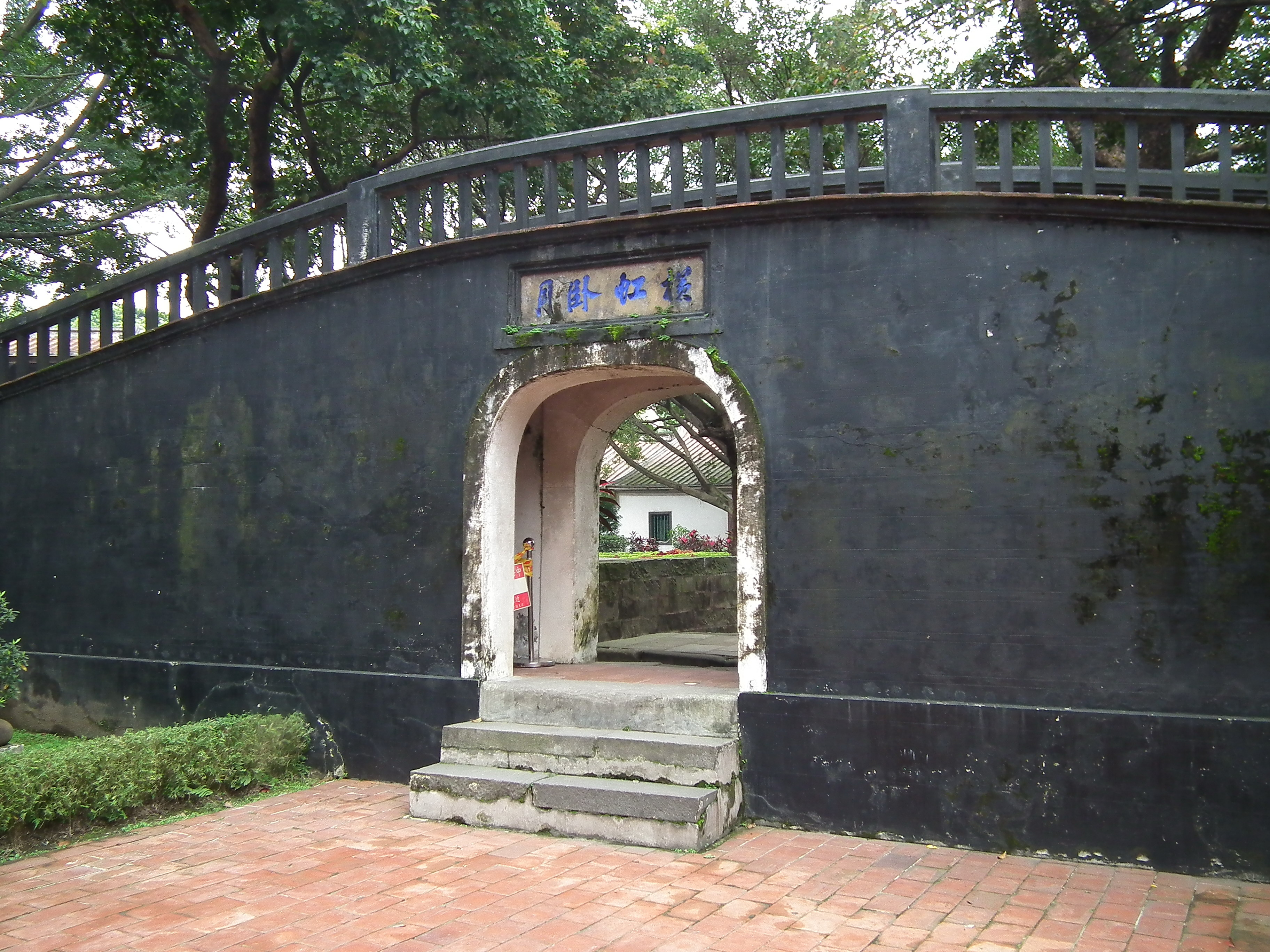 橫虹臥月 Horizontal Rainbow, Crouching Crescent